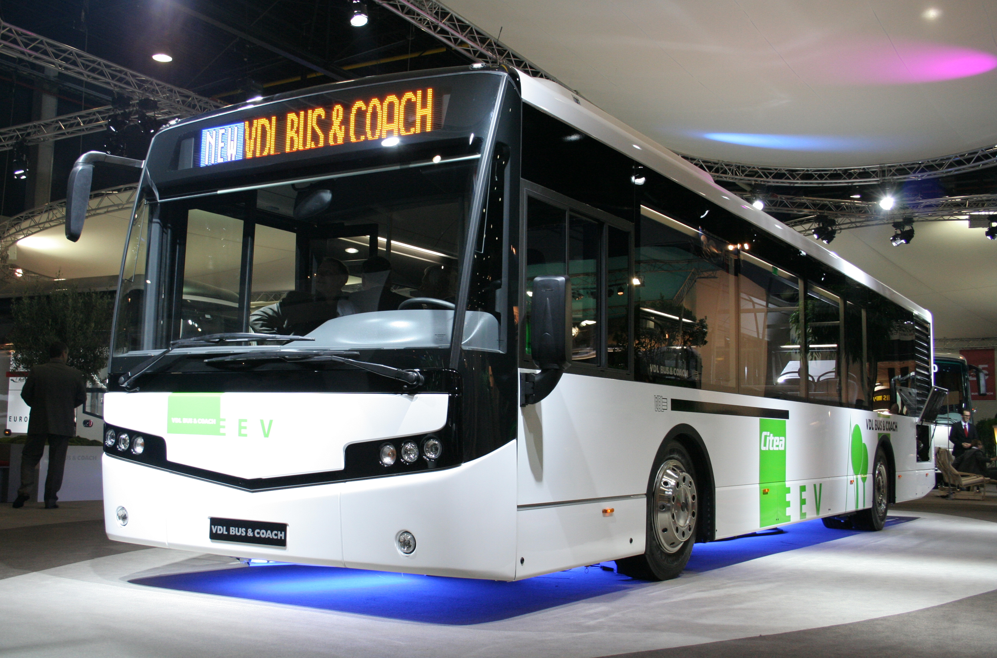 VDL Berkhof Citea CLF 120 bus prototype (built 2007) in Kortrijk, Belgium. Busworld 2007.